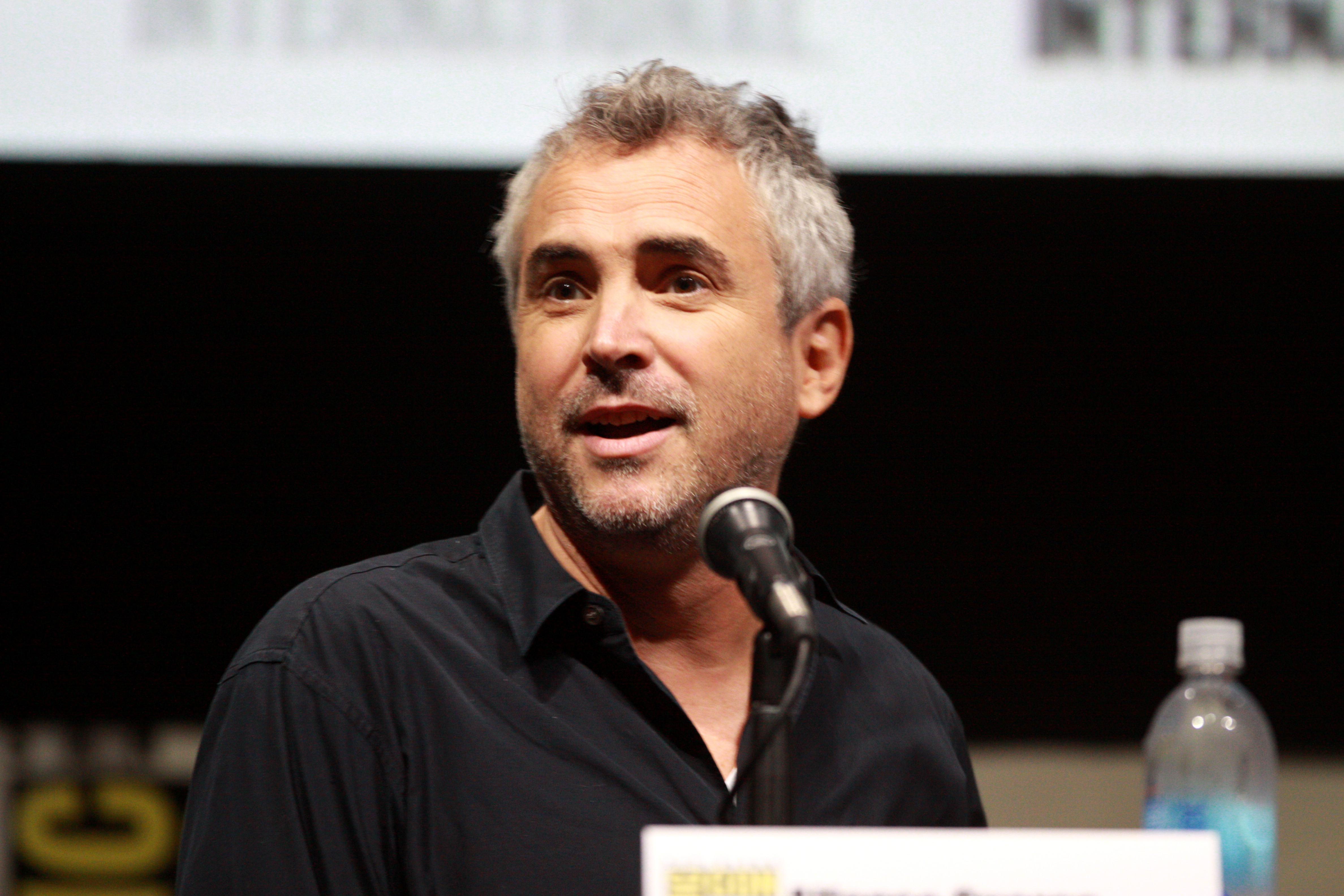 Alfonso Cuarón speaking at the 2013 San Diego Comic Con International, for "Gravity", at the San Diego Convention Center in San Diego, California.